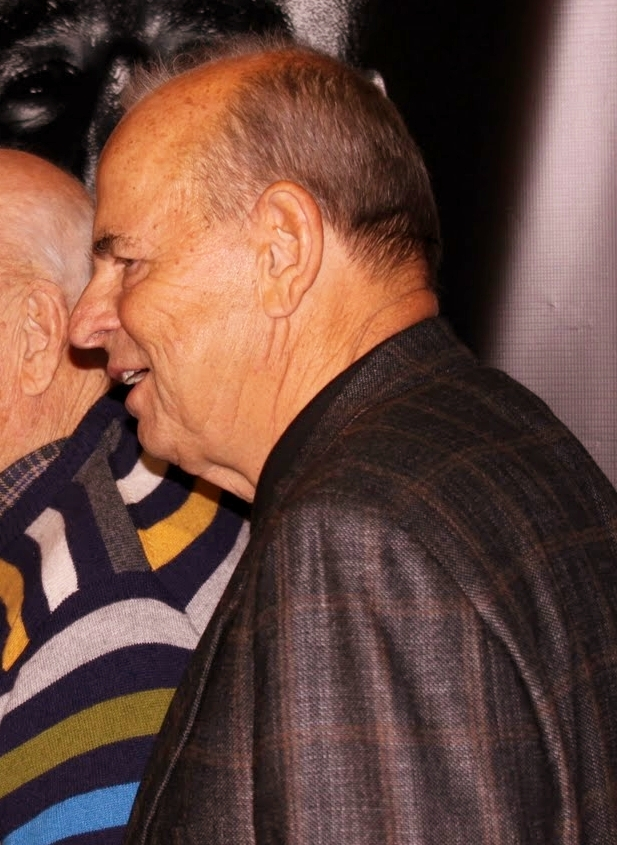 Wilfried Sauerland at the press conference for the Super Six World Boxing Classic in Helsinki in November 2010.